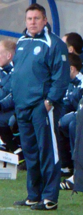 Craig Shakespeare. Image cropped from original at Flickr.